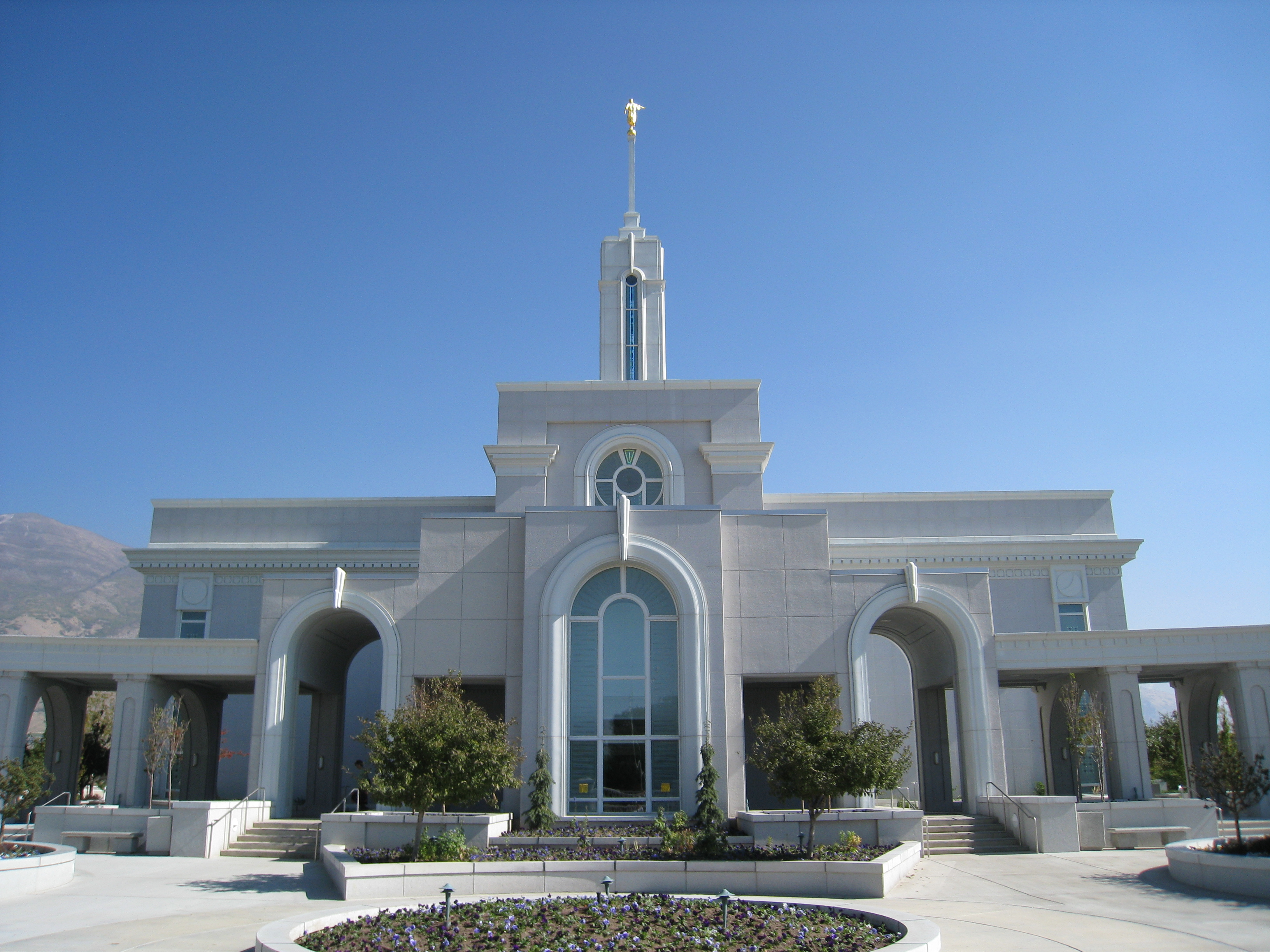 Entrance to the Mount Timpanogos Utah Temple of The Church of Jesus Christ of Latter-day Saints.